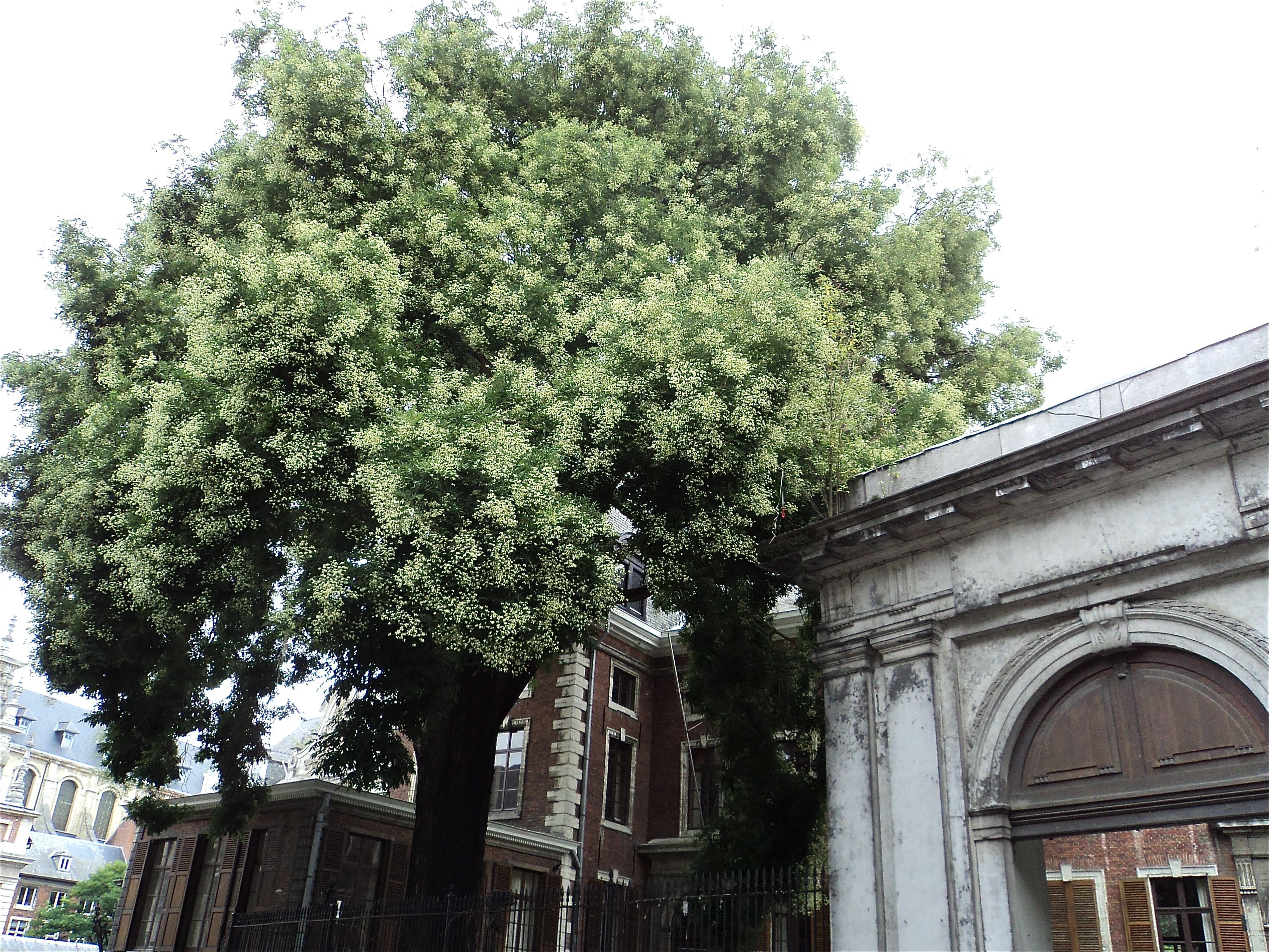 Atrecht college with Sophora Japonica